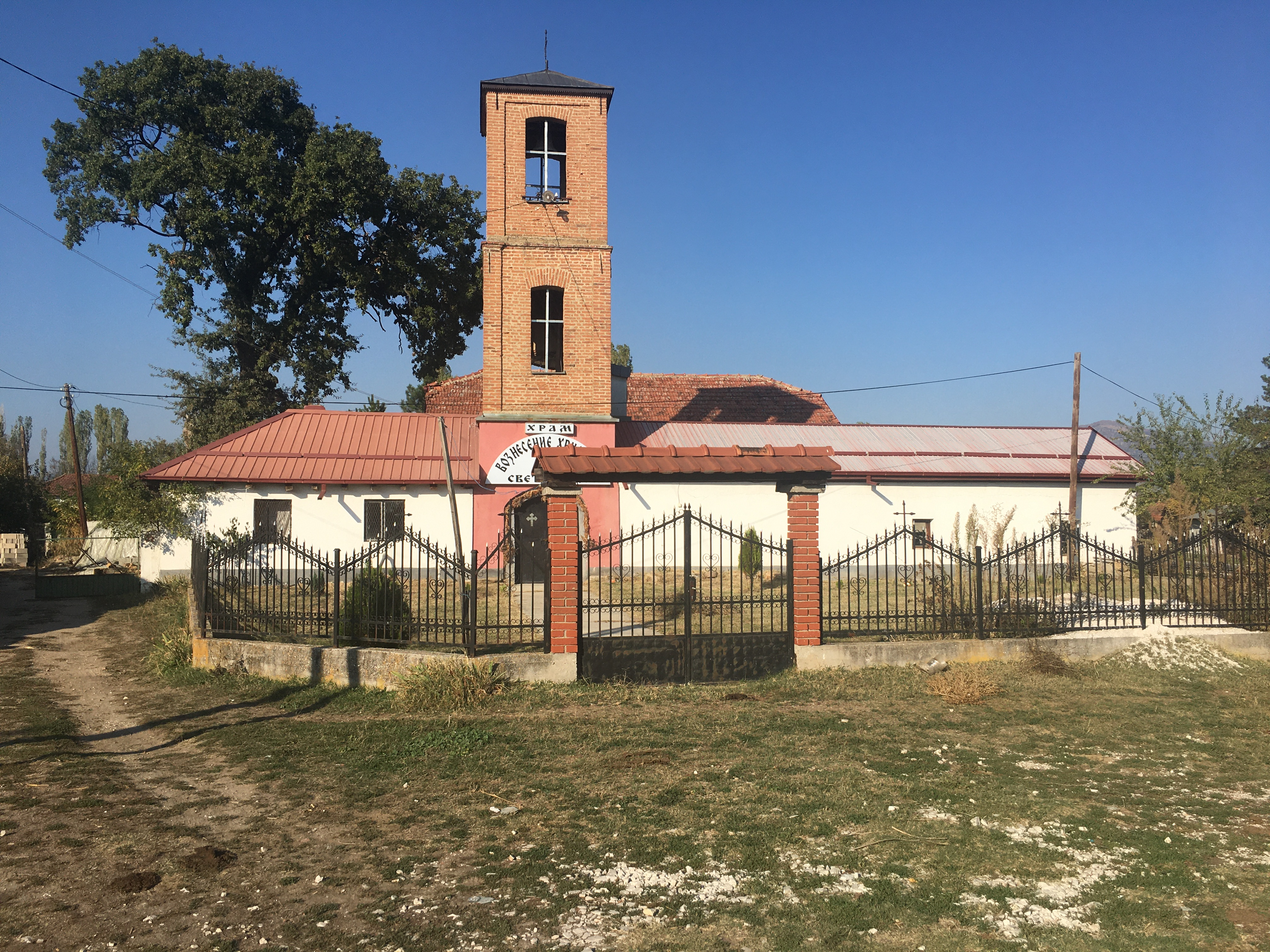 Church of the Ascension of Christ in the village of Dolneni